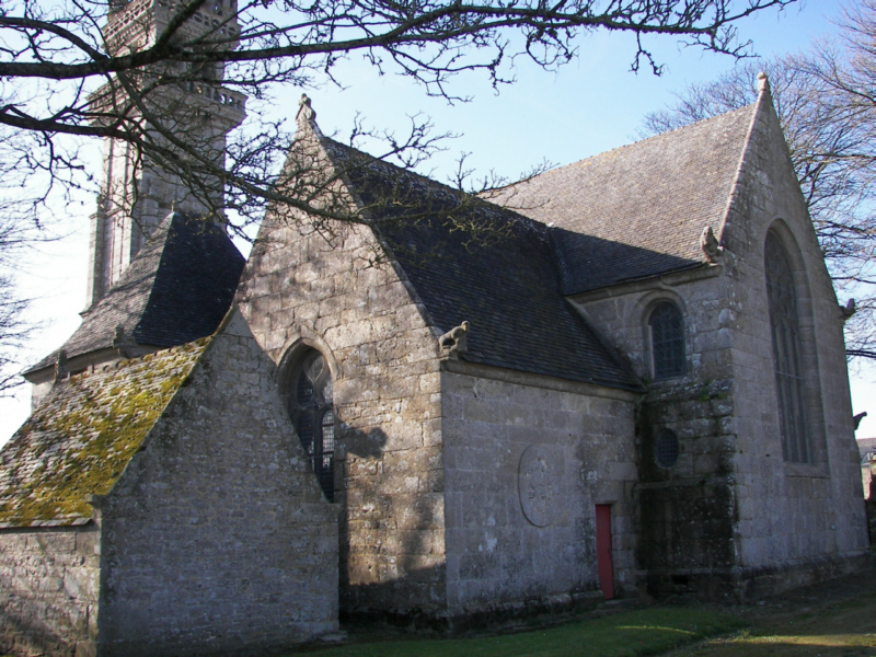 The chapel Notre-Dame-de-Berven was built from 1567 until 1575. It is situated in the hamlet Berven of the commune Plouzévédé in the département Finstère in the region Bretagne in France.